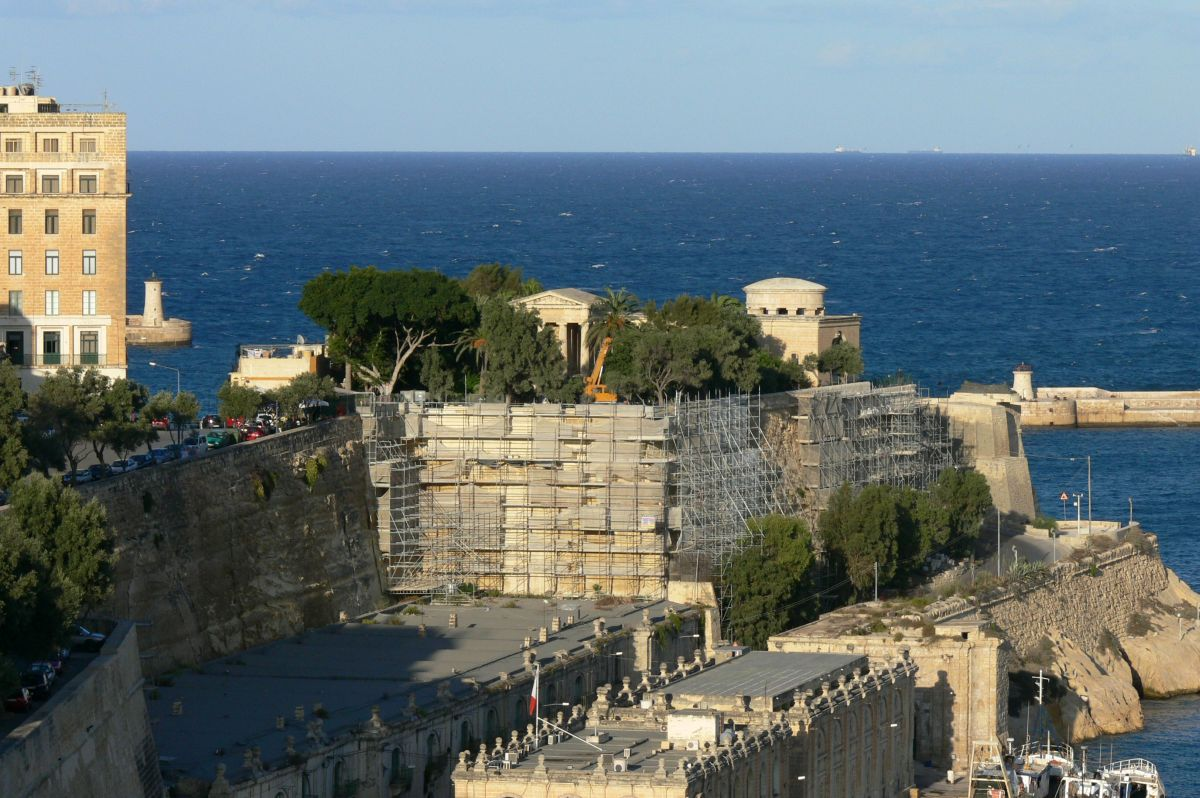 Lower Barakka Gardens seen from the Upper Barakka Gardens in Valletta, Malta